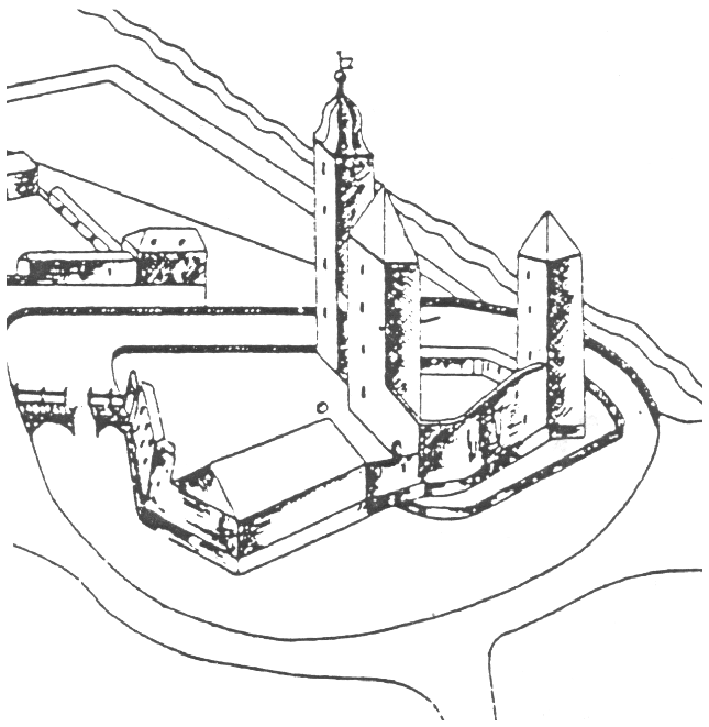 A drawing of Erffa castle.